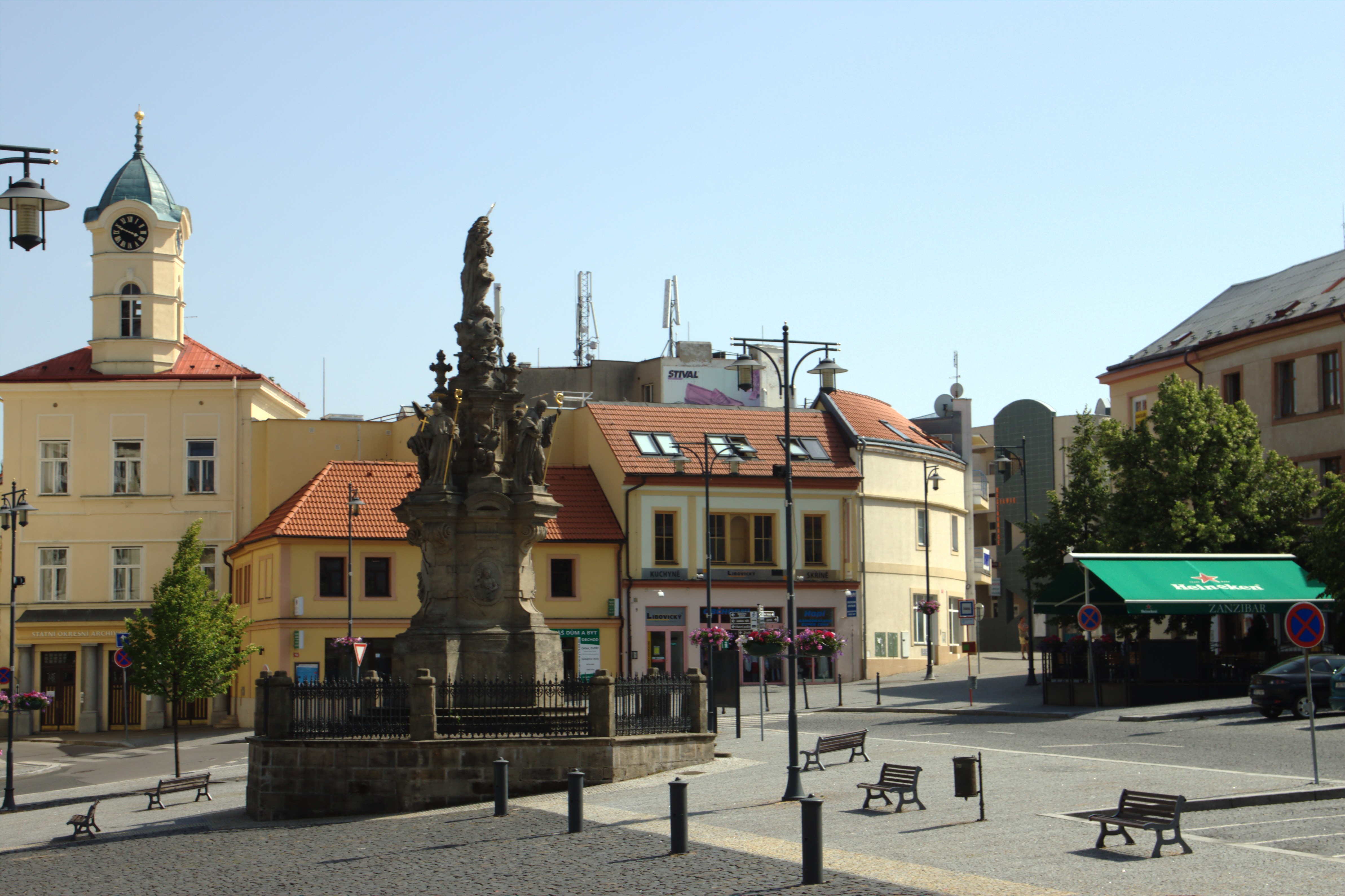 Kladno city centre, Central Bohemian Region, CZ. Main square, western half of southern side with District Archives (in the very left) and Marian column.